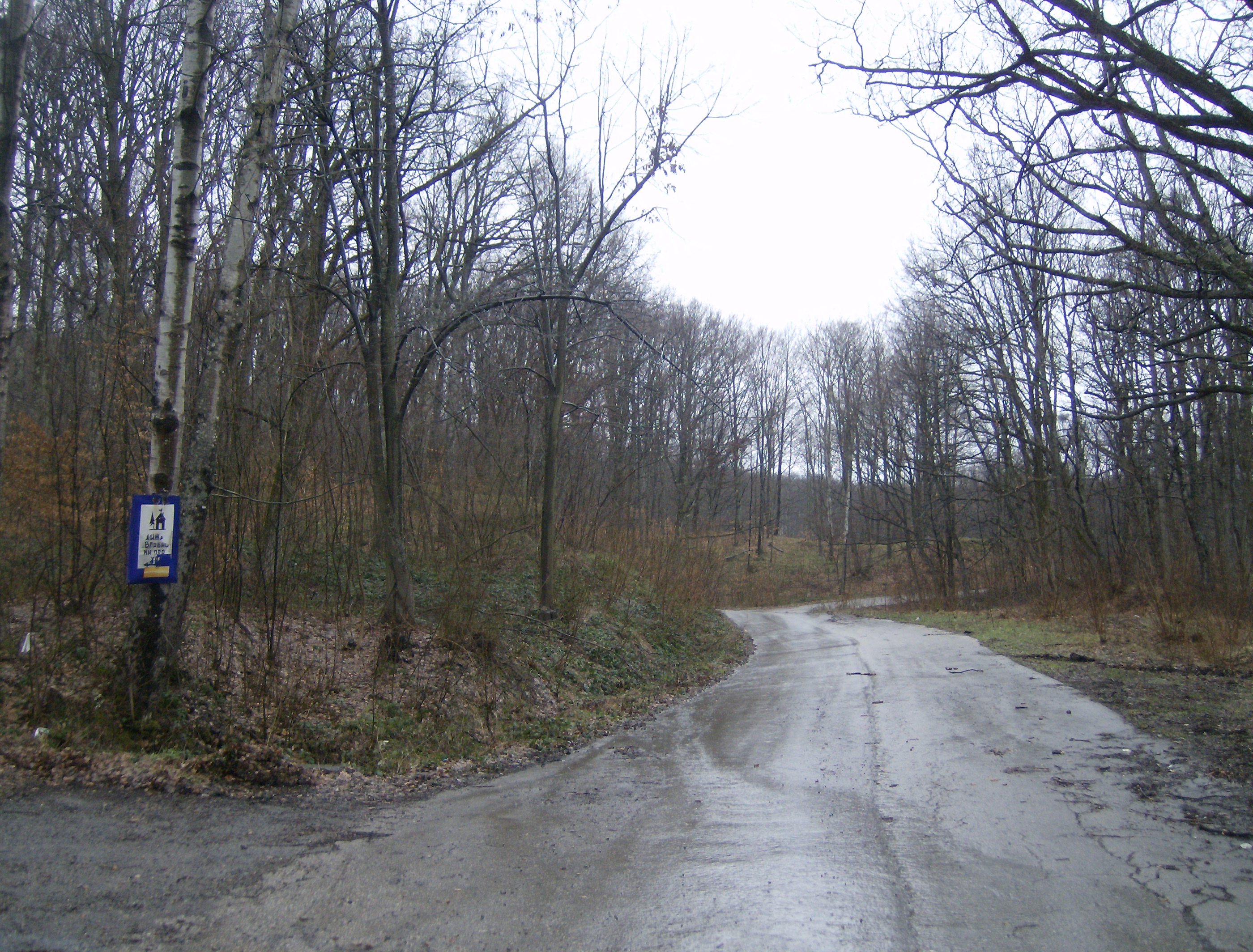 Varbishki prohod